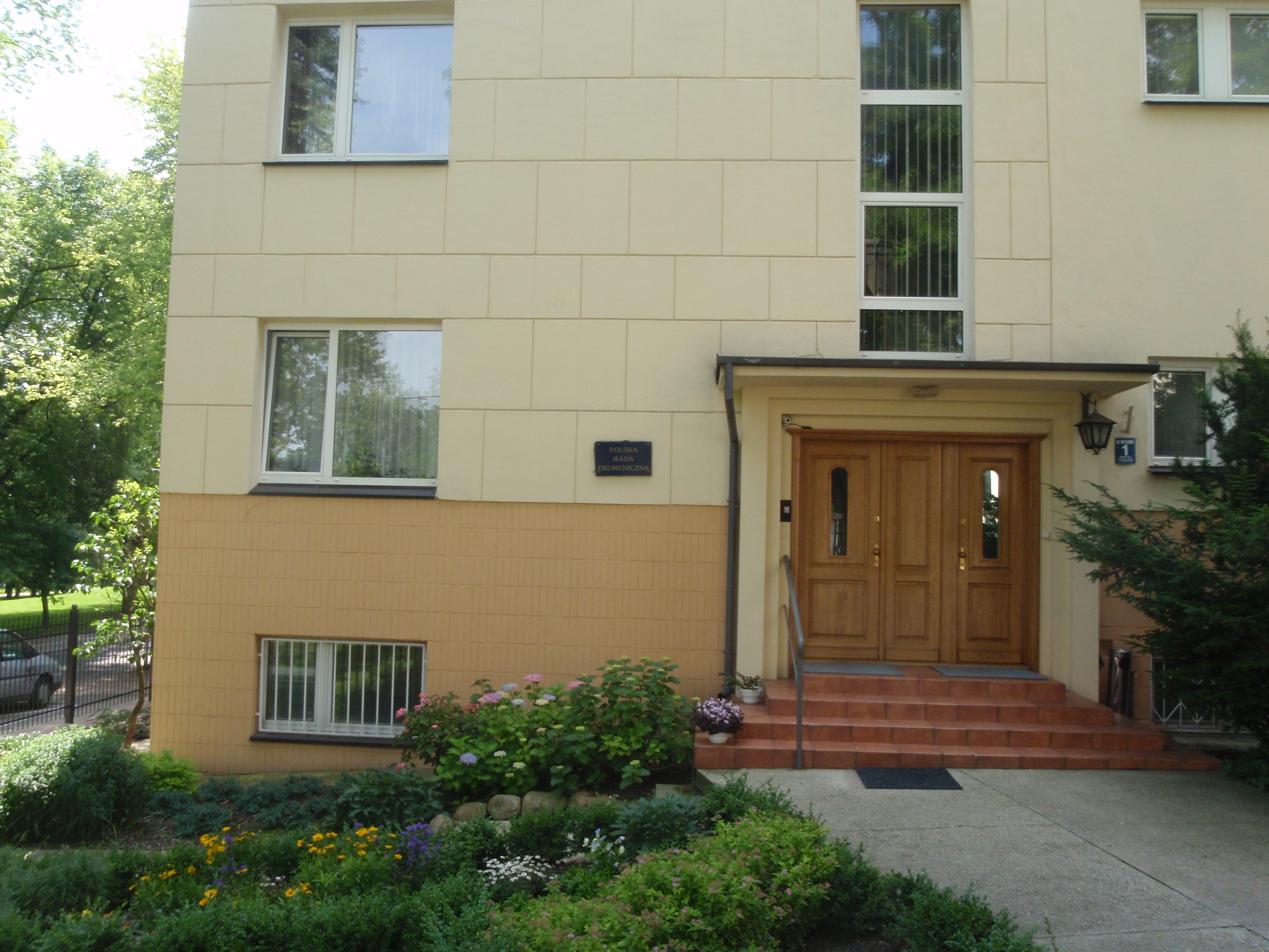 seat of Polish Ecumenical Council, Willowa 1 street, Warsaw